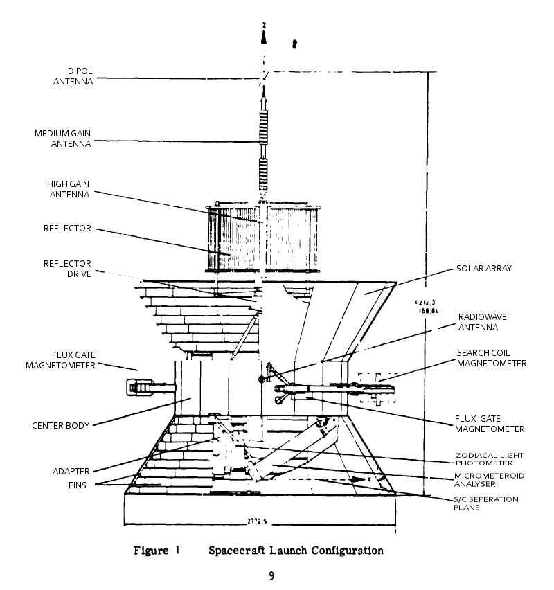 Launch configuration diagram of the Helios A spacecraft. Helios B had an identical configuration.